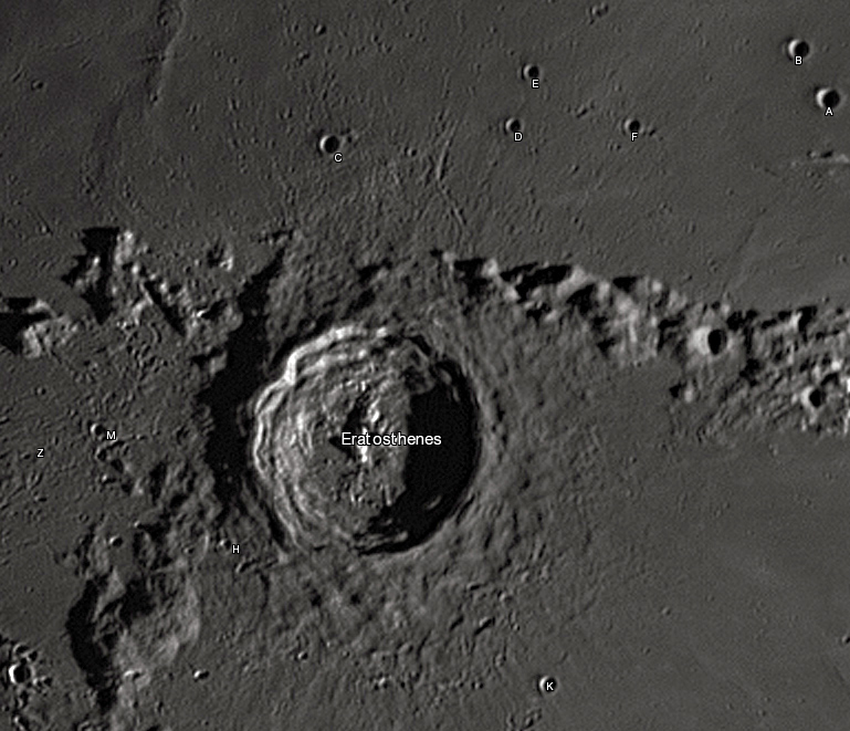 Eratosthenes lunar crater as seen from Earth with satellite craters labeled